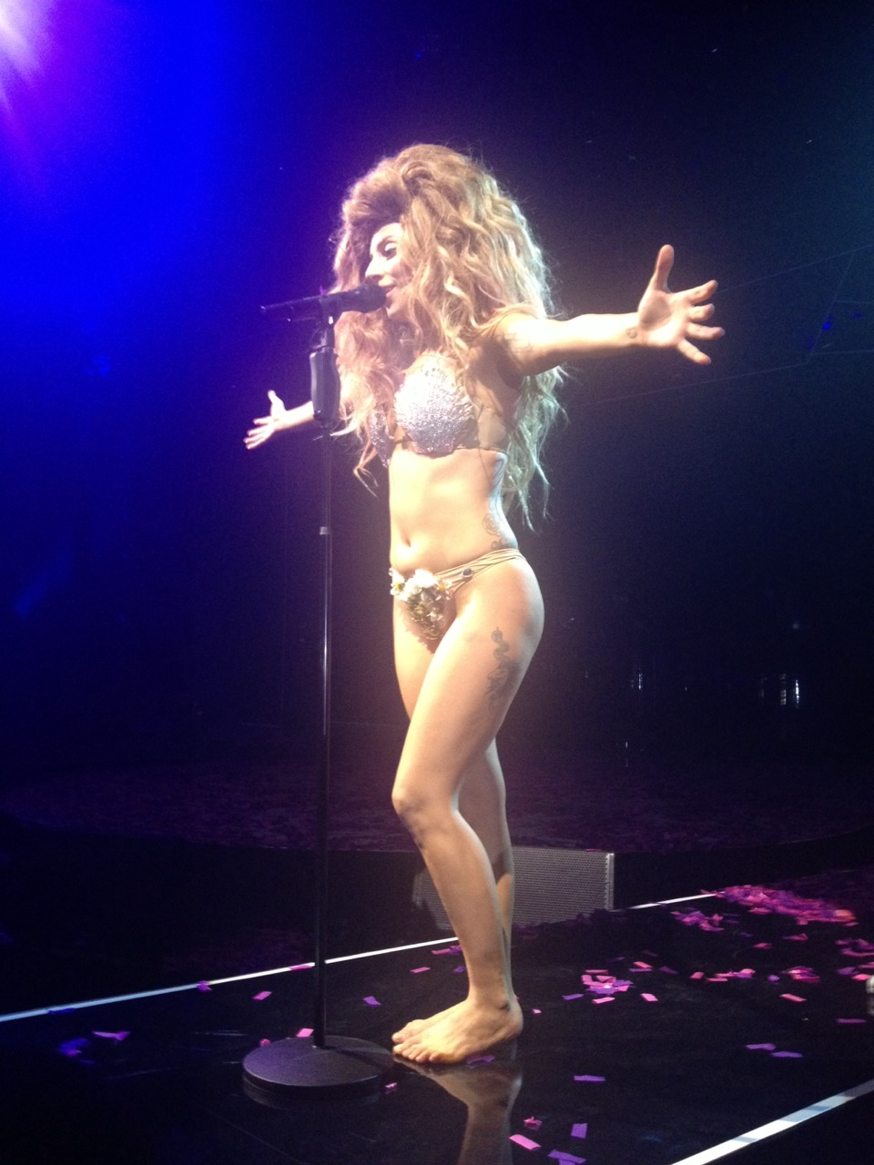 Lady Gaga performing her song "Artpop" on the iTunes Festival in London, on September 1, 2013.